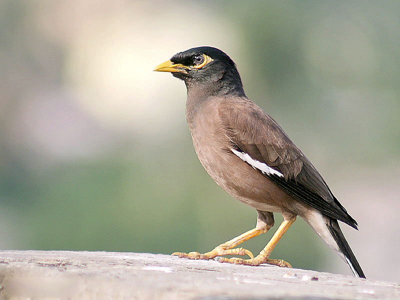 Common Myna Acridotheres tristis in Kolkata, West Bengal, India.